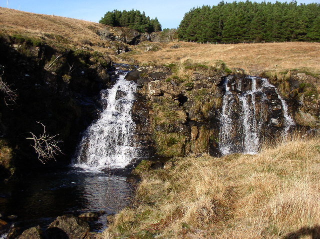 Waterfalls, Glen Brittle. A stream draining from the forest in Glen Brittle falls attractively over a ledge and feeds the infant River Brittle